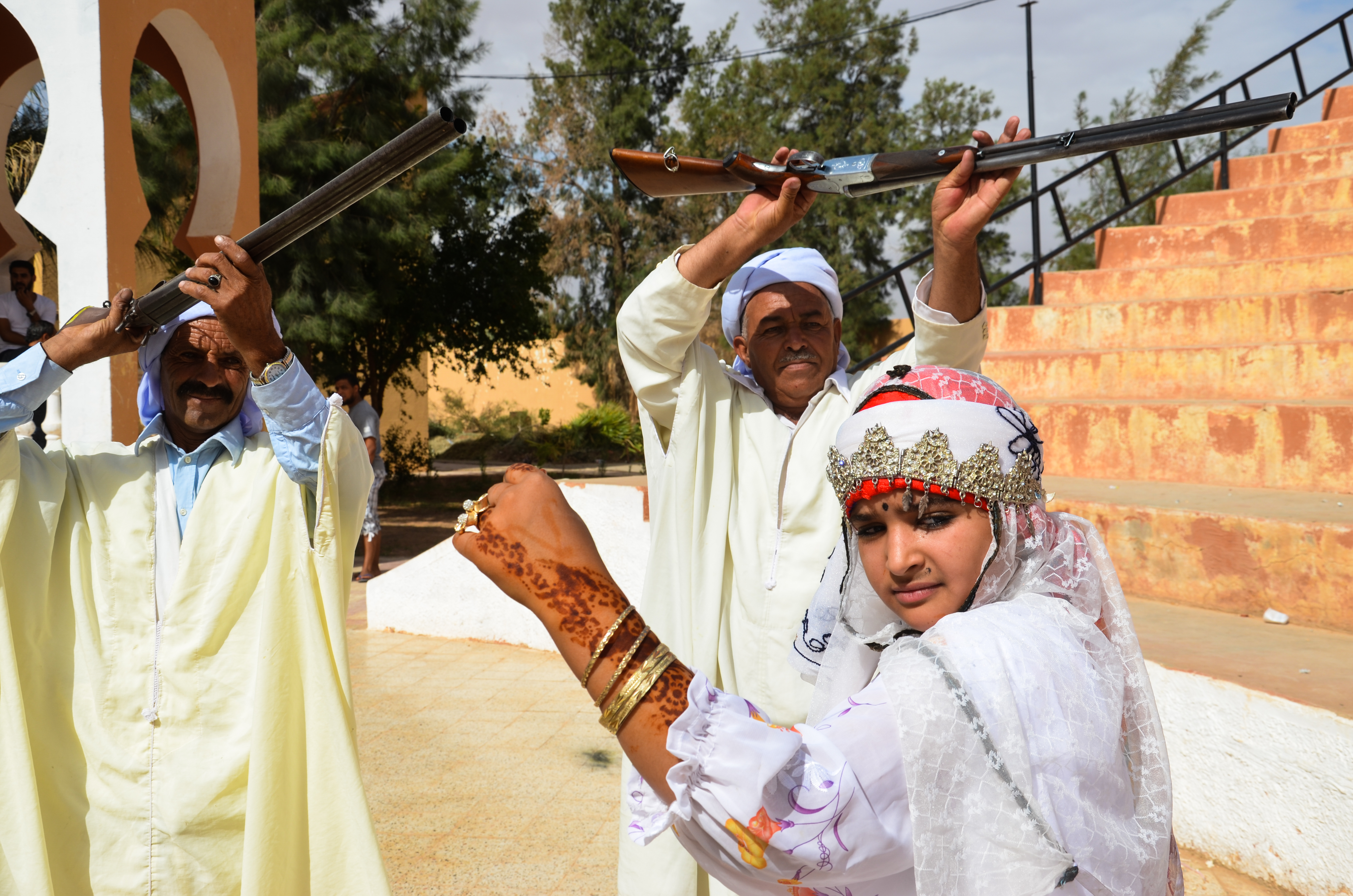 Dancers of Ouled Nail, in Algeria This is an image from Algeria